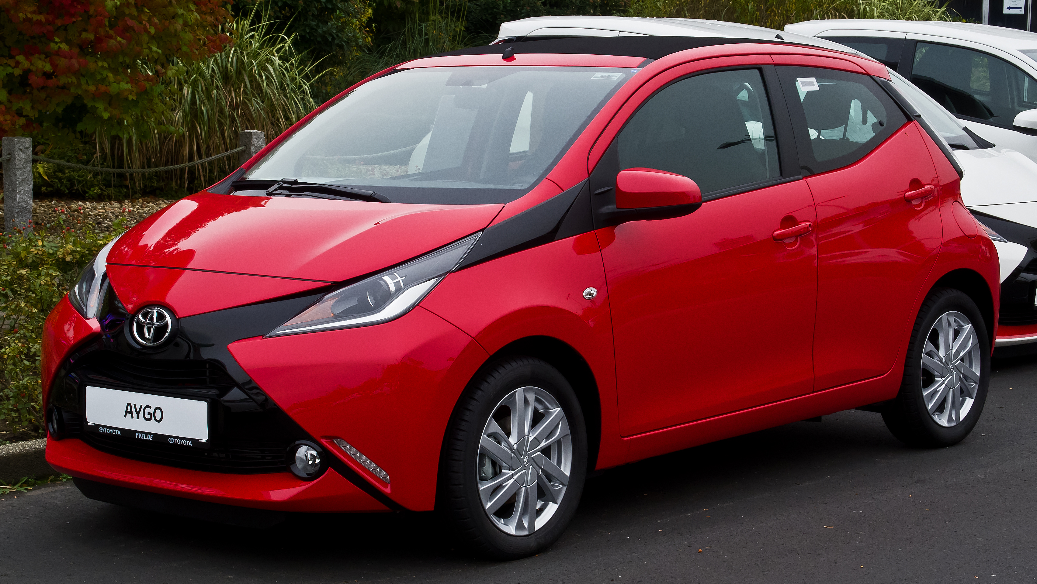 Toyota Aygo 1.0 VVT-i x-wave (II)